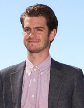 Andrew Garfield in The Amazing Spiderman 2: Rise Of Electro in Sydney, Australia 2014.